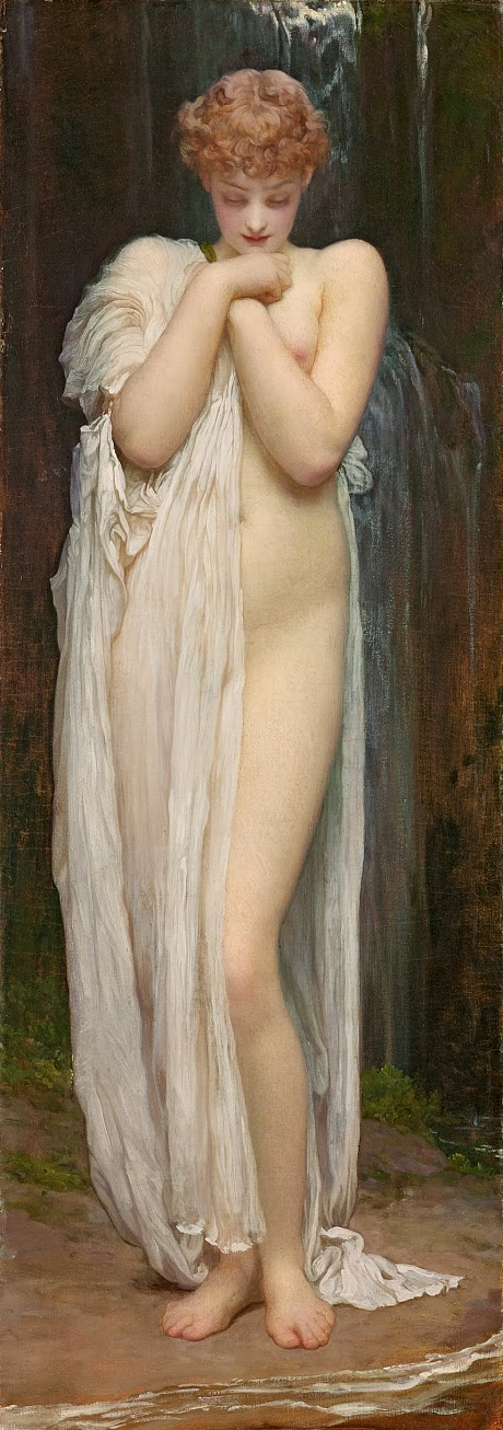 Crenaia, the Nymph of the Dargle, Frederic Leighton, 1880.